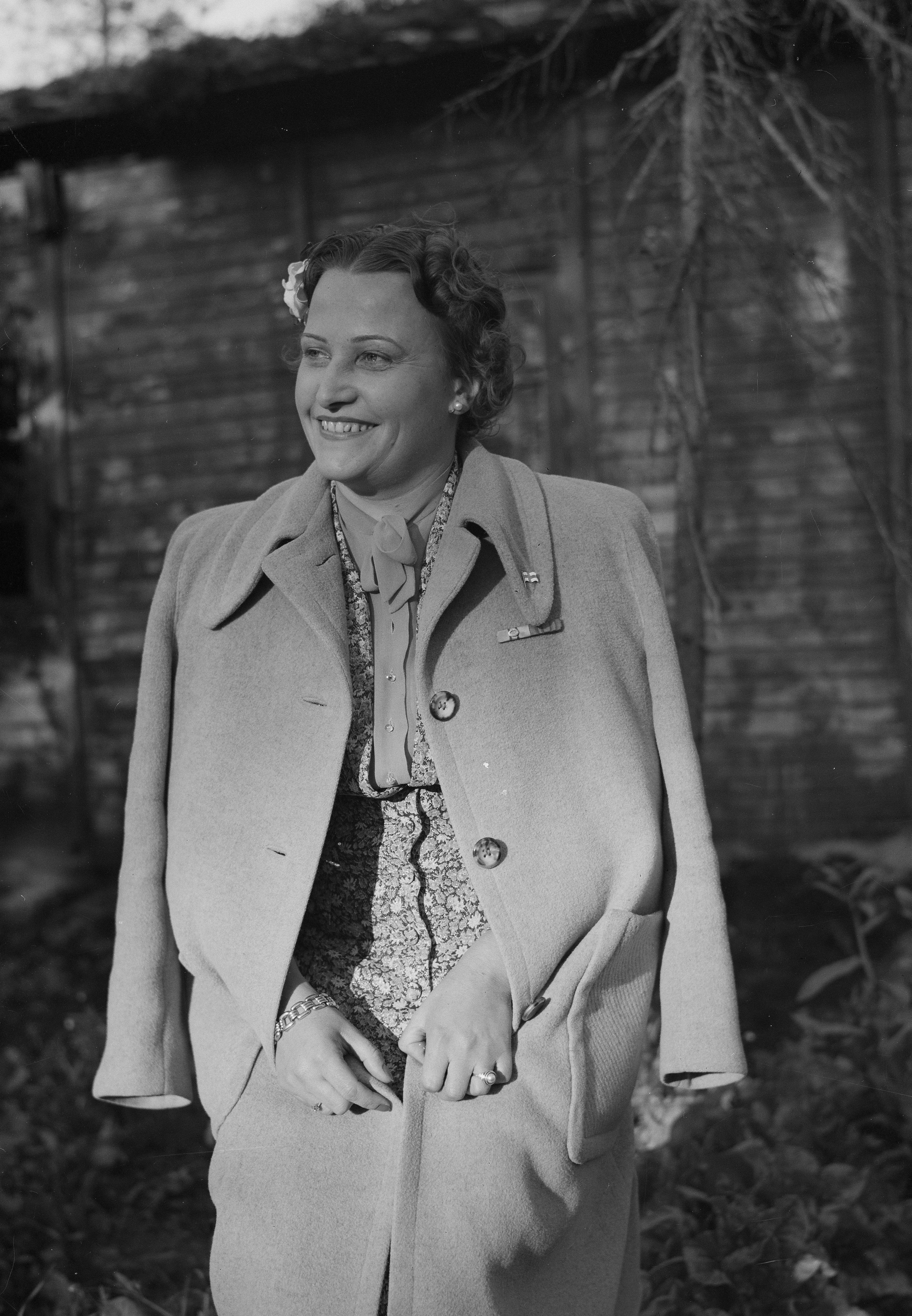 Photograph of the Finnish soprano Lea Piltti during a concert tour near Rukajärvi.